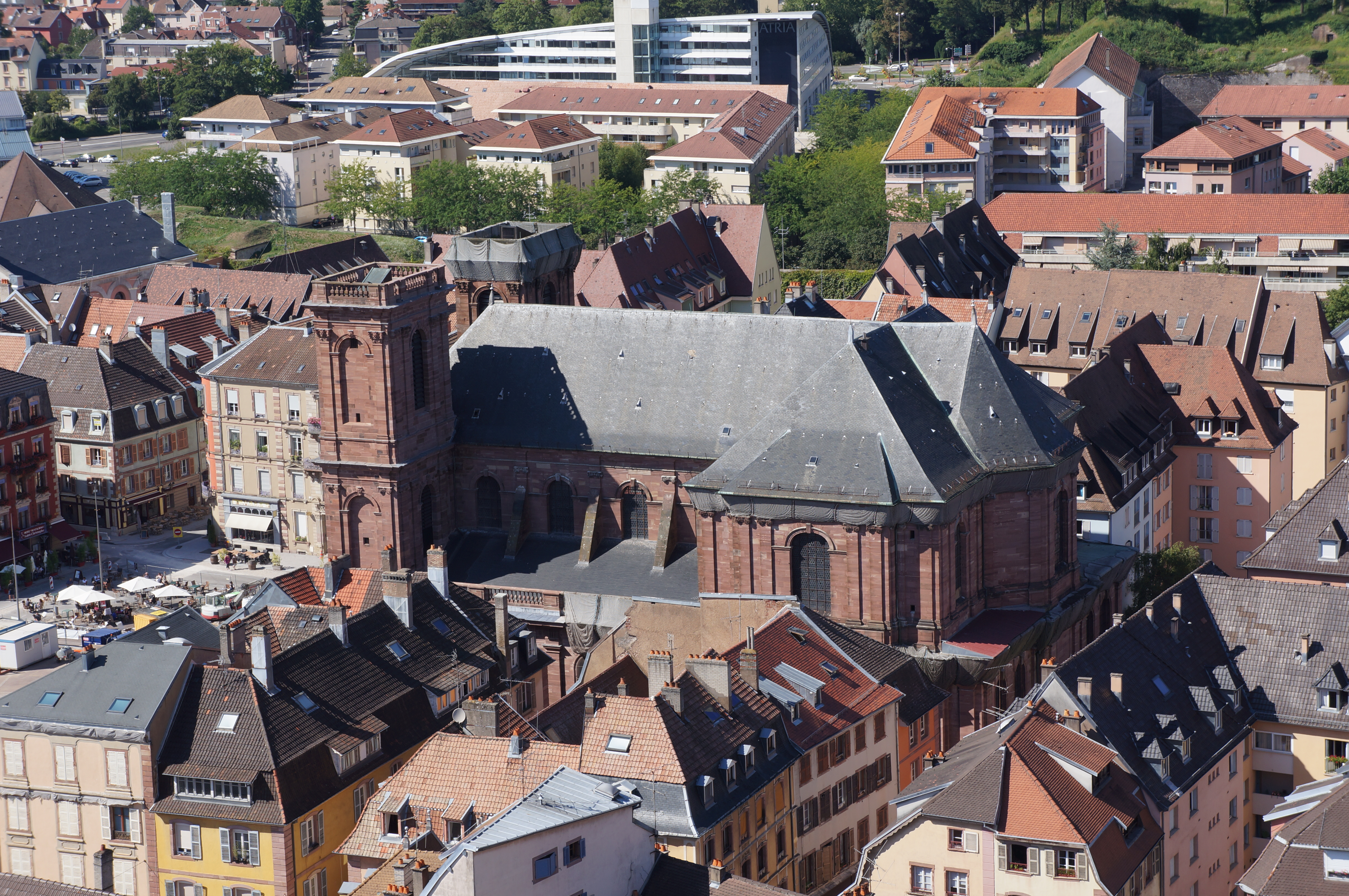 Panoramic views of Cathédrale Saint-Christophe de Belfort.